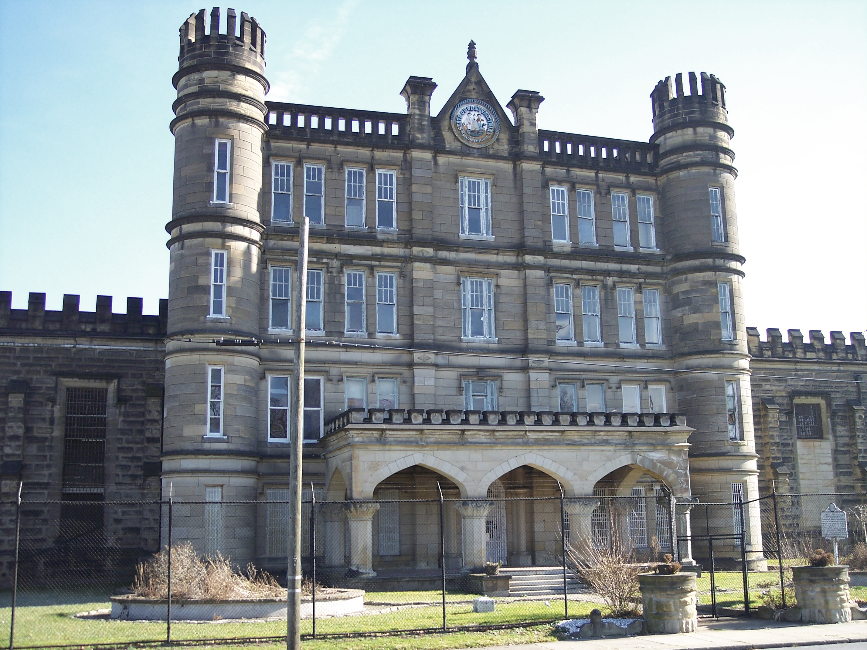 West Virginia State Penitentiary in Moundsville, West Virginia